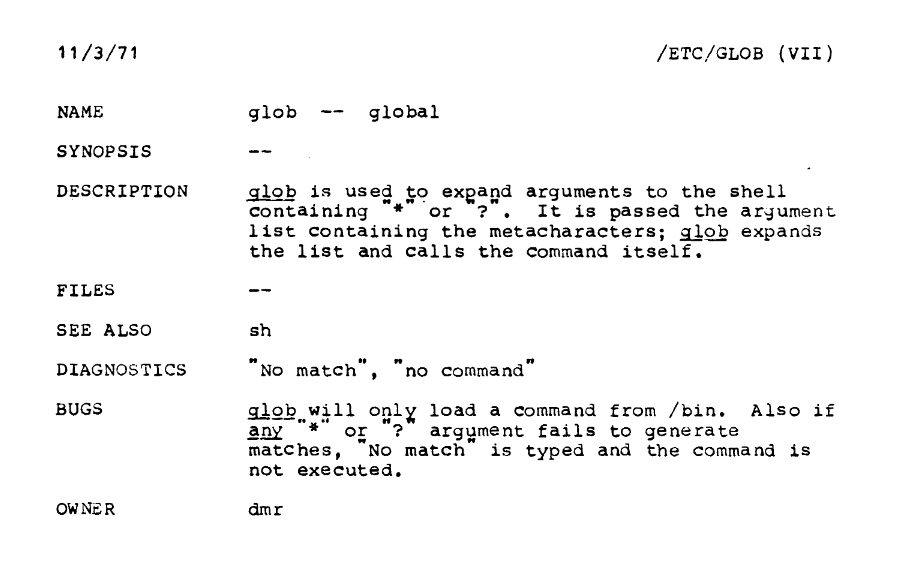 Screenshot of the original Unix glob reference, from the 1971 manual by Bell Labs